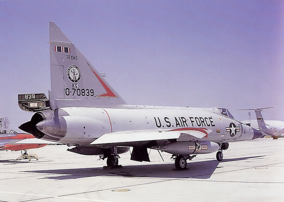 182d Fighter Interceptor Squadron - Convair F-102A-90-CO Delta Dagger 57-839